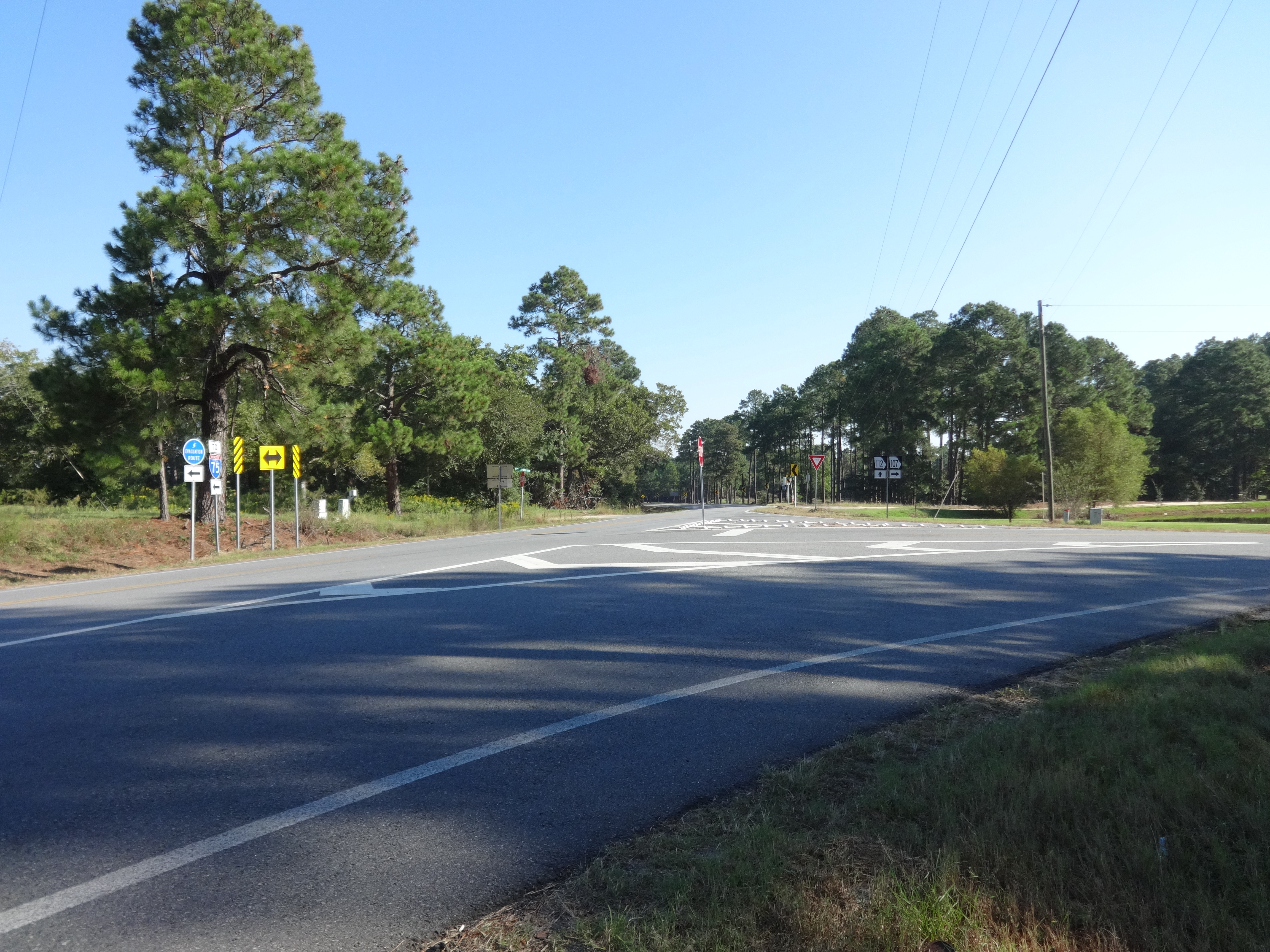 GA107-112 Int, Turner County, Georgia